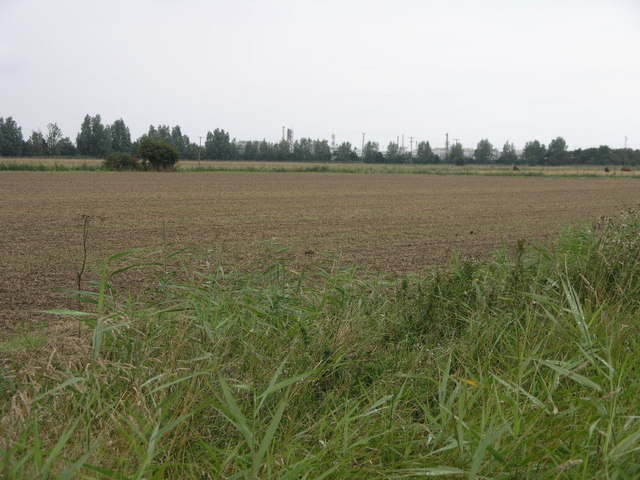 Fields and Gas Works. The industrial chimneys on the horizon are part of the gas terminal in the next square north.